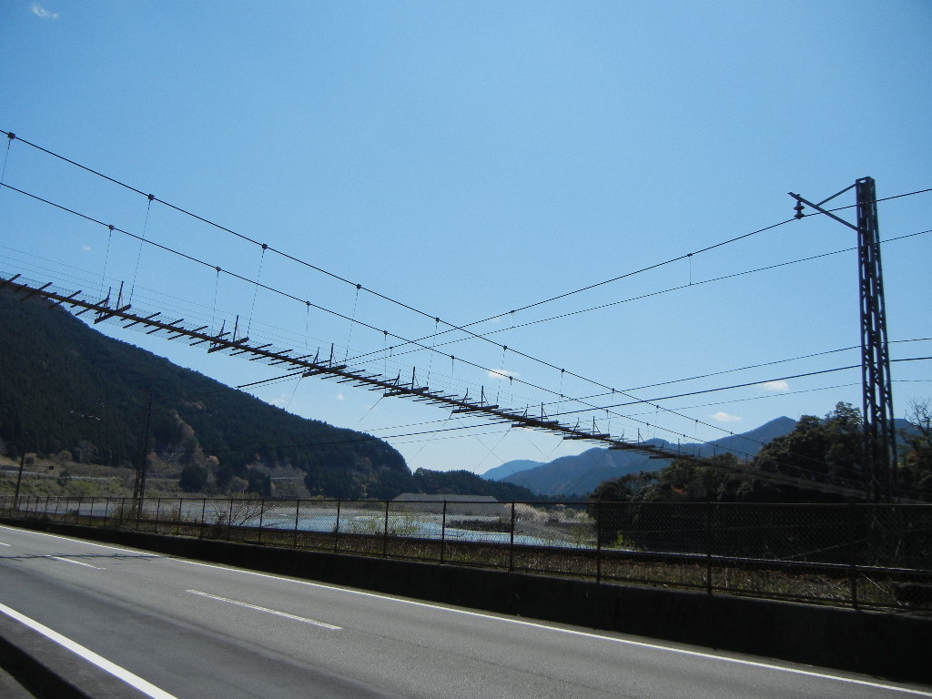 Shiogo-no-Tsuribashi2_Kawane. 静岡県川根本町にある塩郷の吊り橋, Kawanehon.